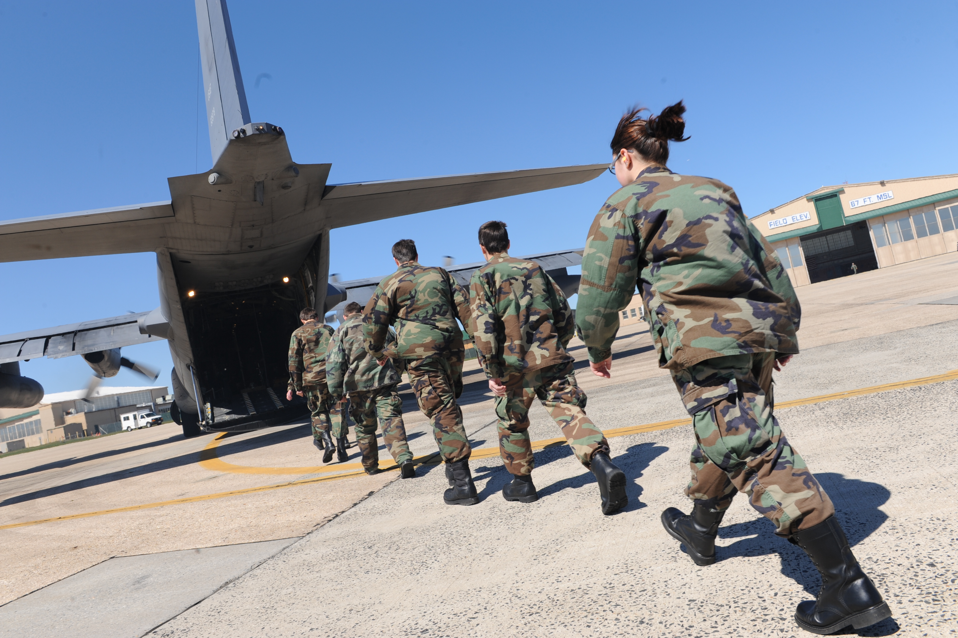 WESTHAMPTON BEACH, NY - Cadets with the Leroy R. Grumman Cadet Squadron, Civil Air Patrol board an HC-130 belonging to the 106th Rescue Wing at F.S. Gabreski ANG on April 6, 2012.(USAF / Senior Airman Christopher S. Muncy / released)